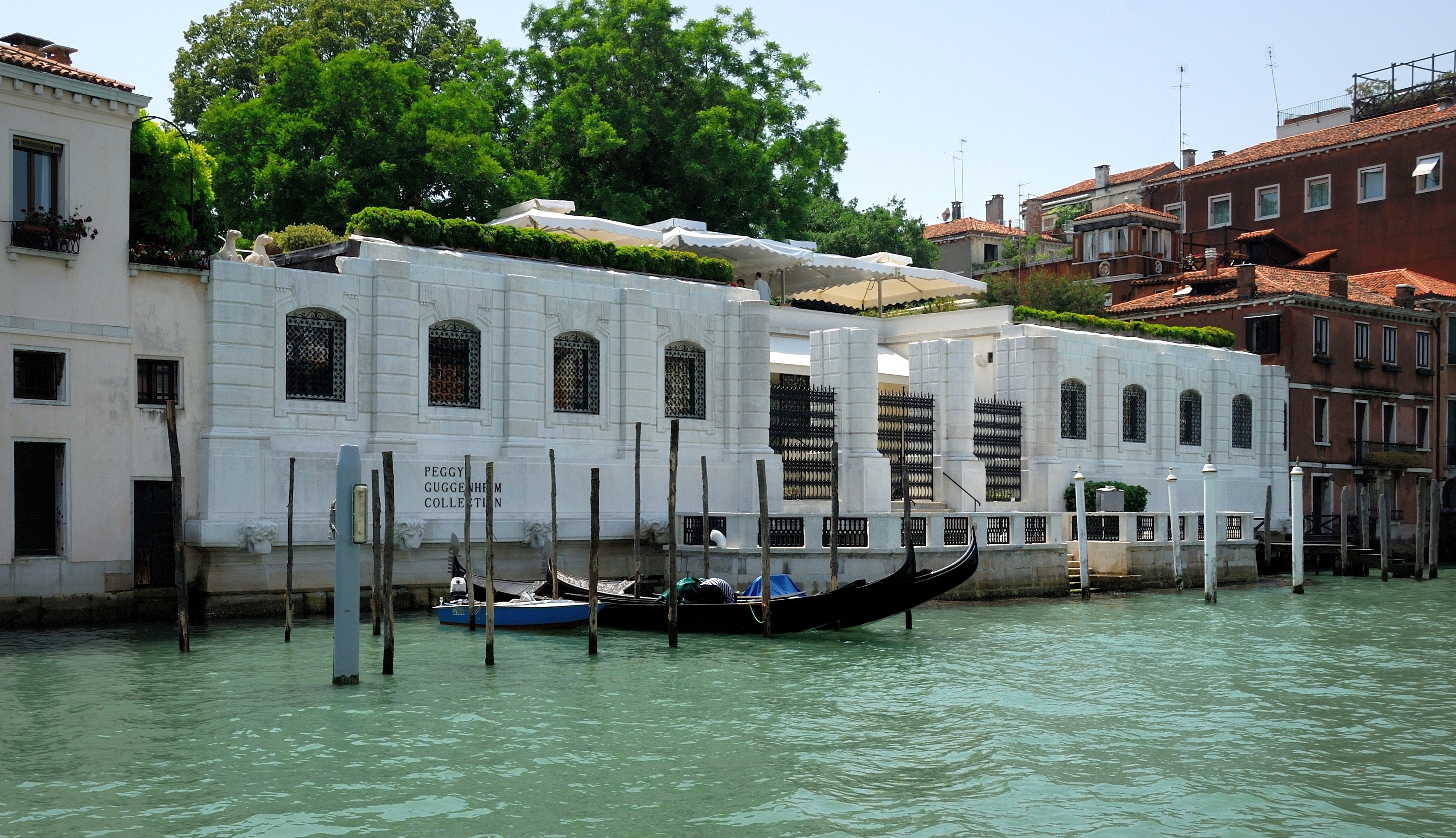 Peggy Guggenheim Collection, Venice